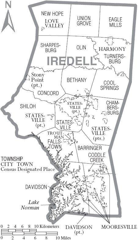 Map of Iredell County, North Carolina, United States with township and municipal boundaries